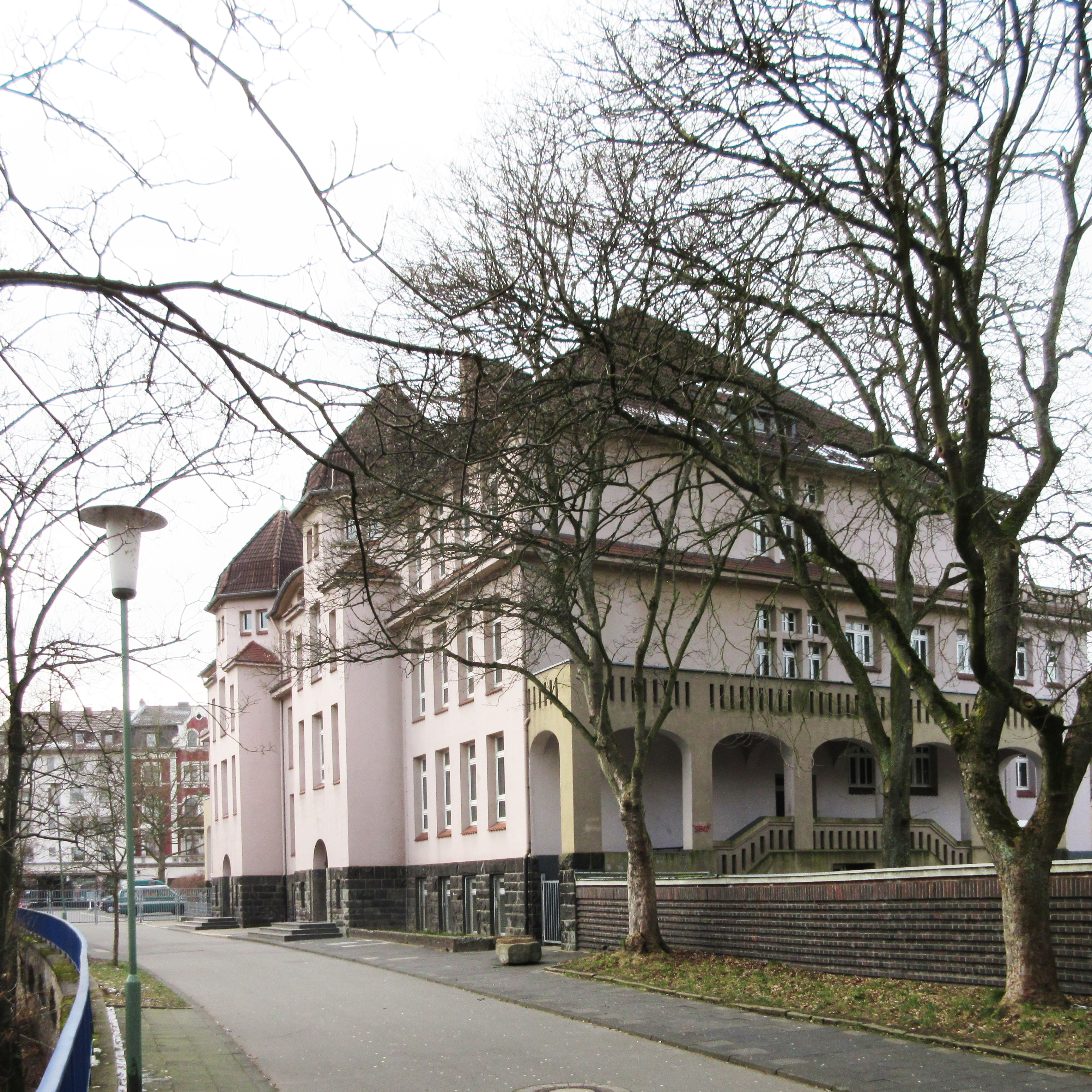 former Hauptschule (type of secondary school) Heubing in Hagen-Haspe, now used by the adjacent Christian Rohlfs School, Hagen/Germany